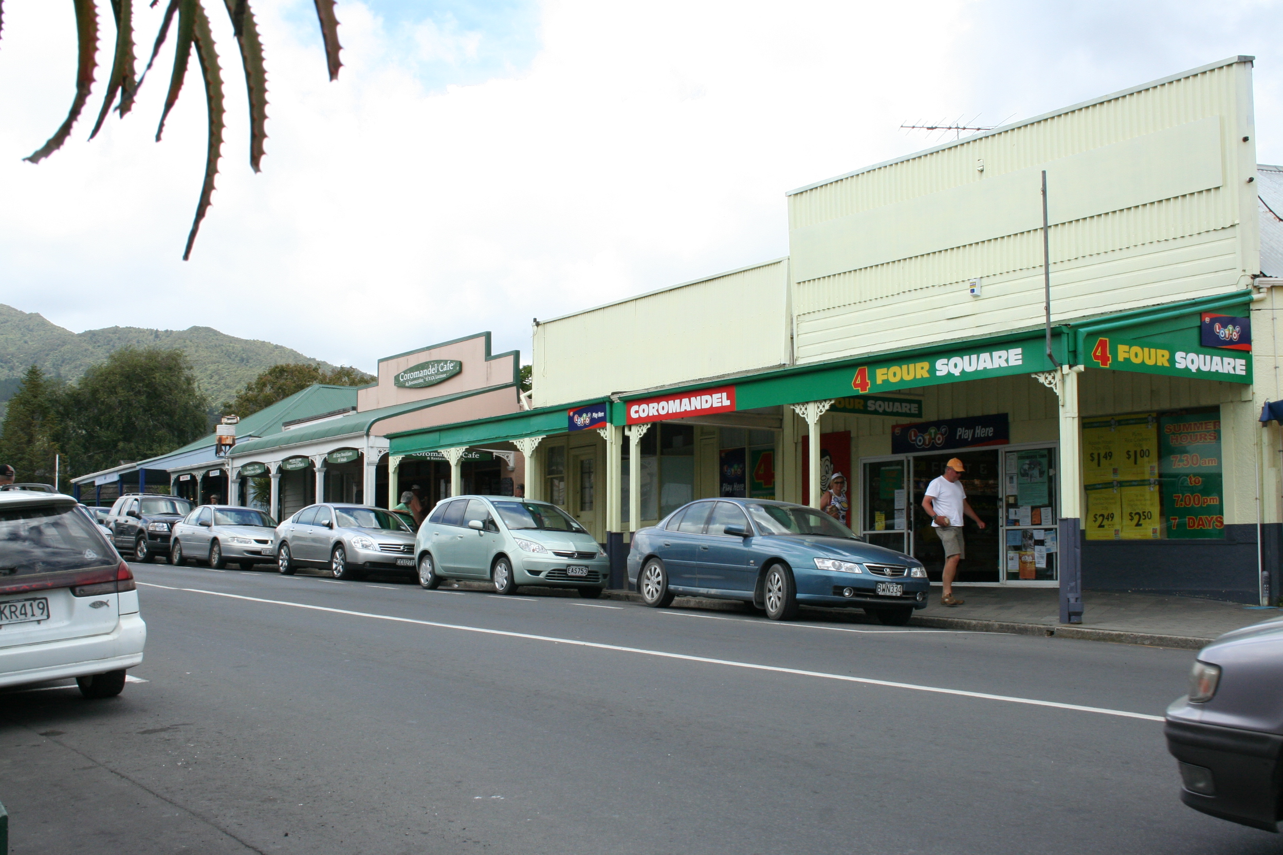 Small village of Coromandel, North Island, Coromandel Peninsula